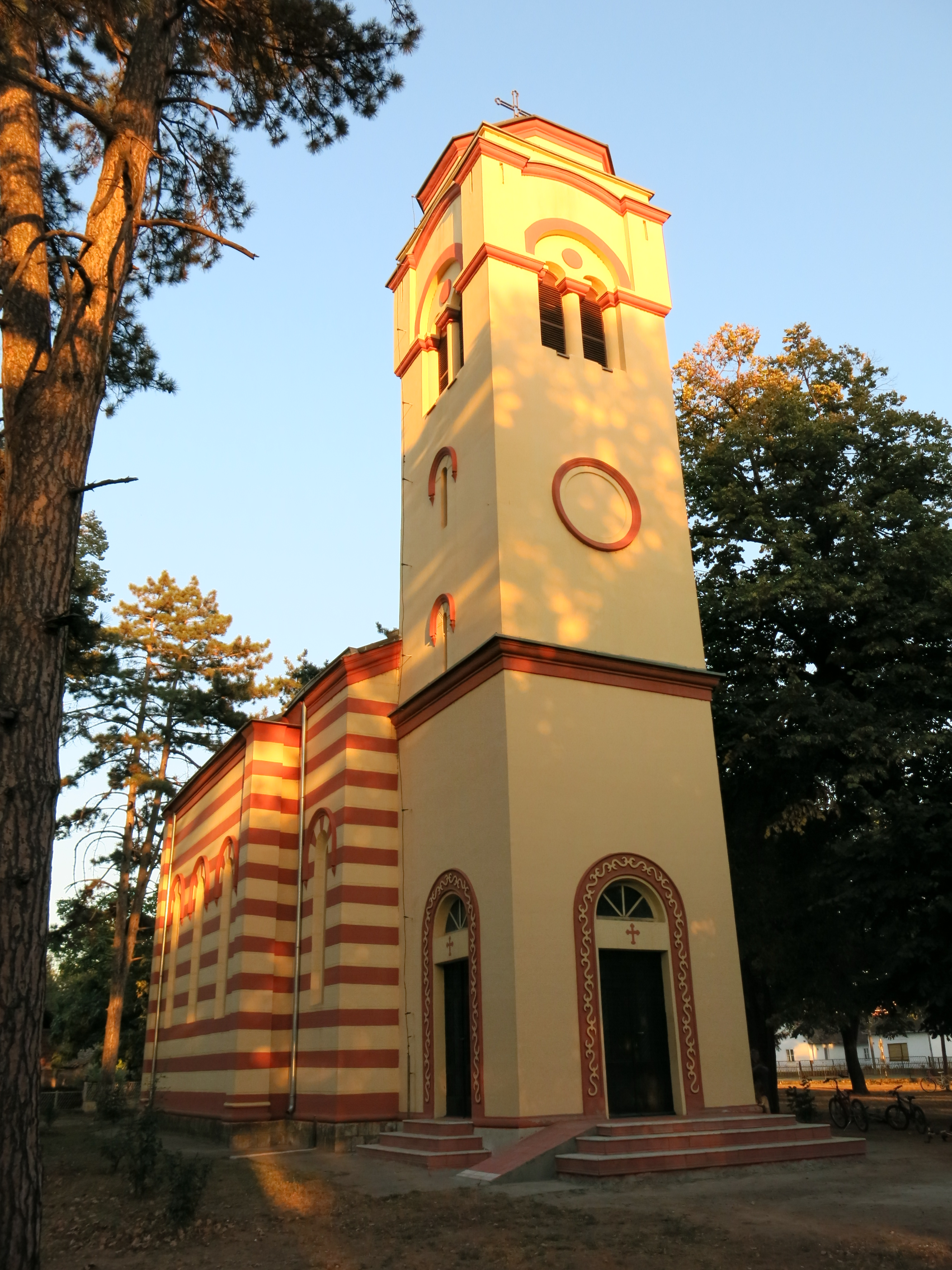 Vranovo, Holy Trinity Church